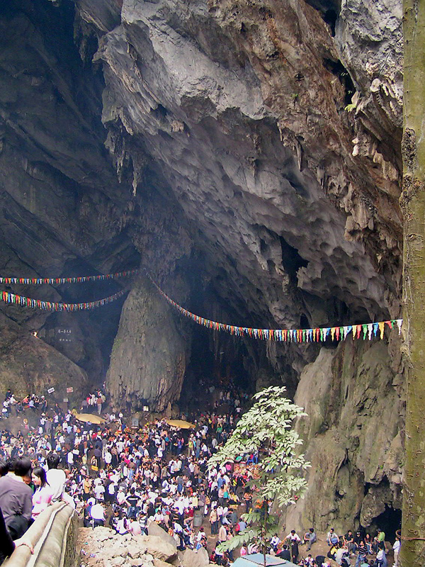 Perfume Pagoda, Hanoi, Vietnam. Huong Tich Cave.